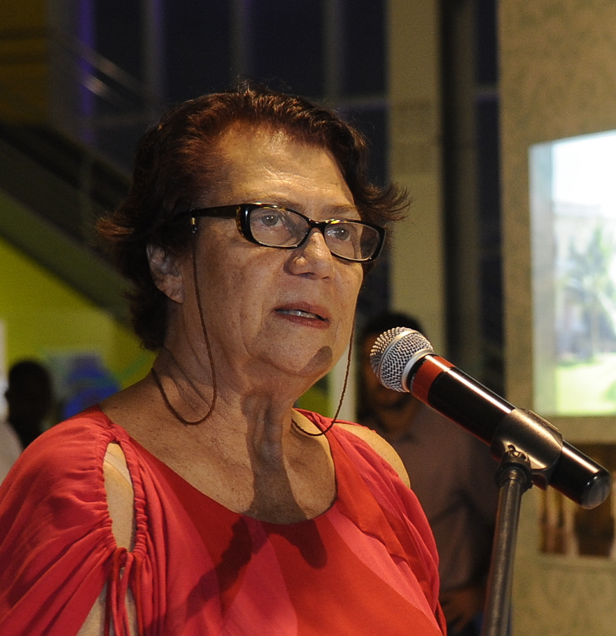 Brazilian writer Ana Maria Machado